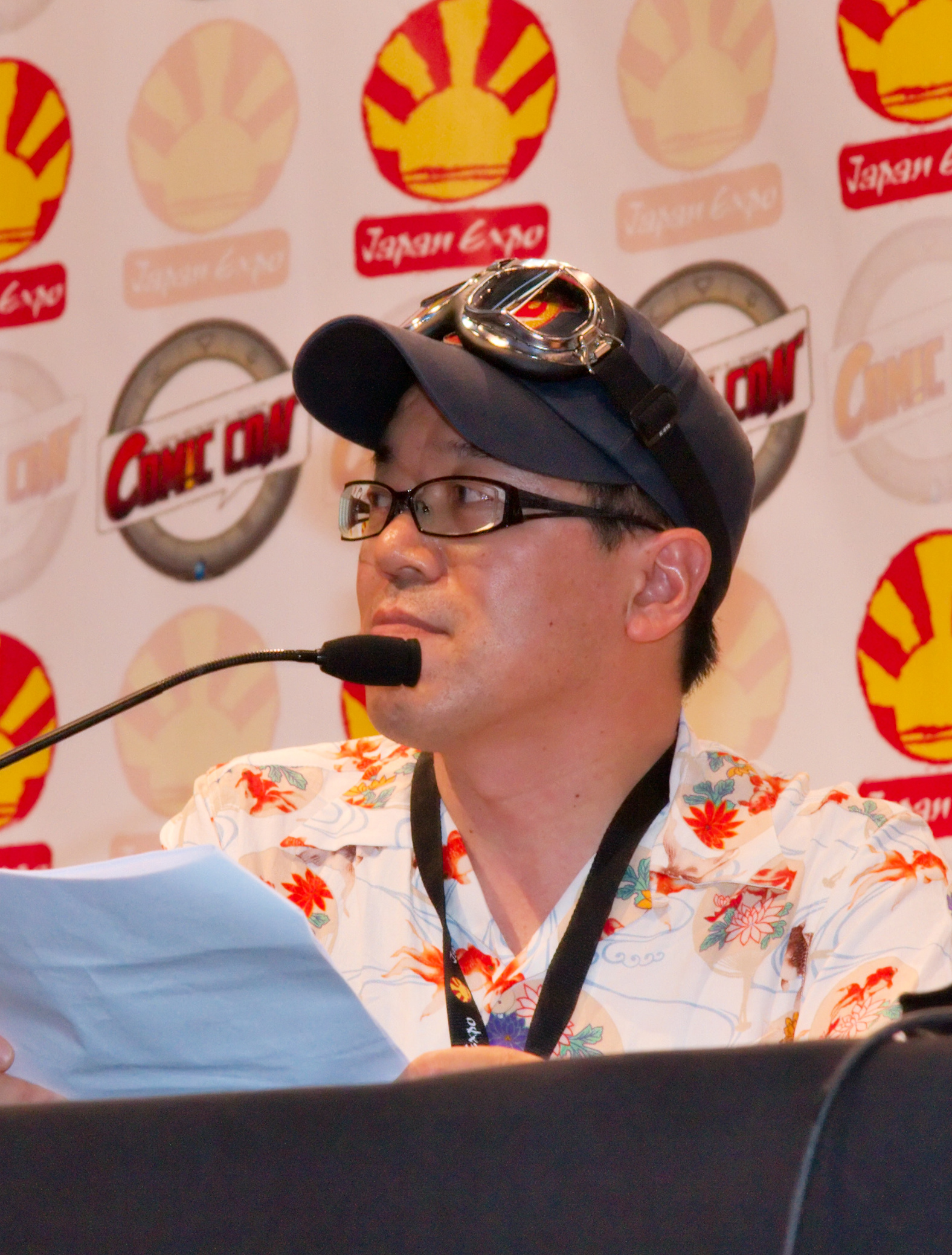 Takami Akai's lecture at Japan Expo 2009 (Paris, France)